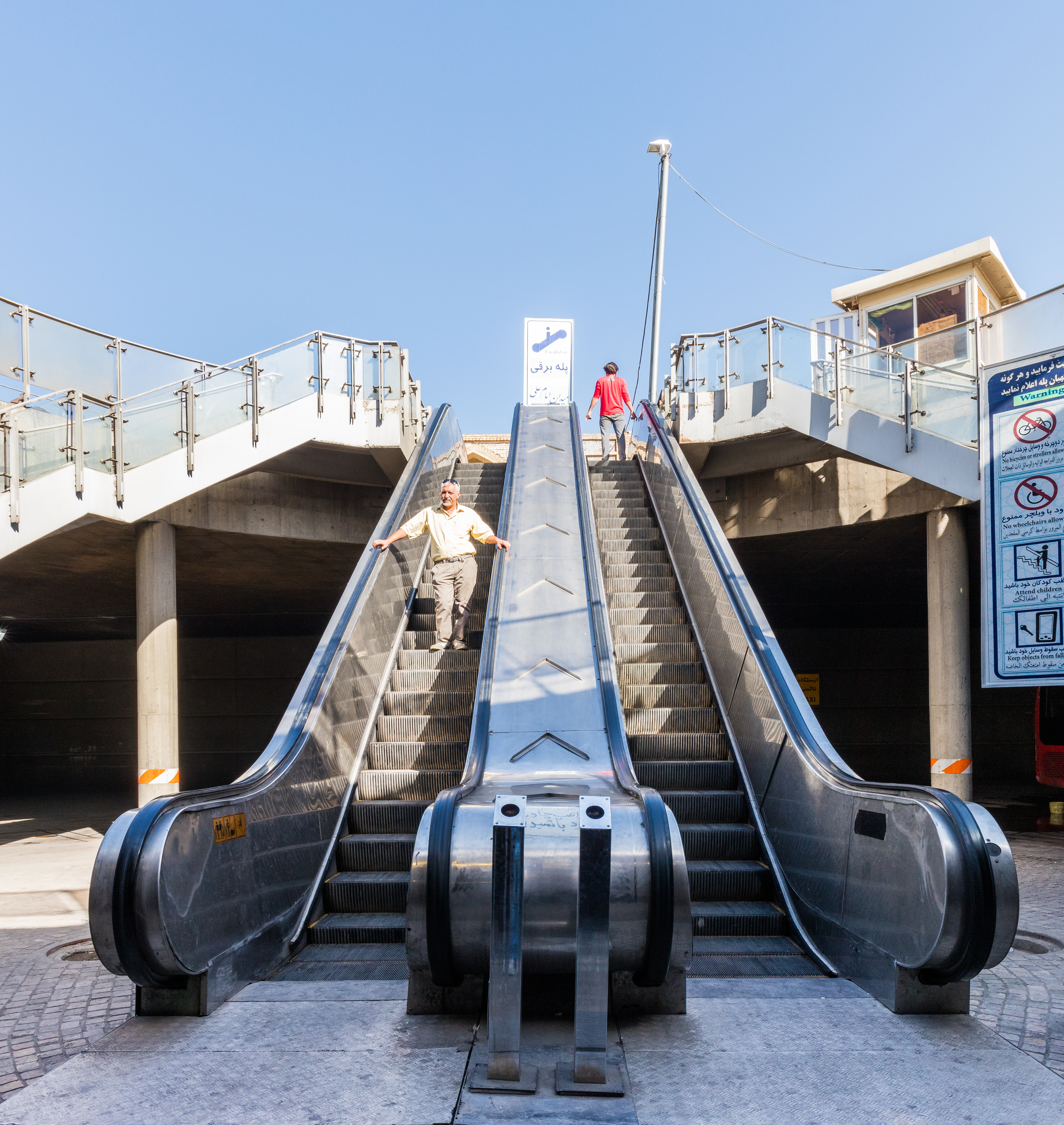 Escalator at the entrance of the Great Mosque of Isfahan, Isfahan, Iran